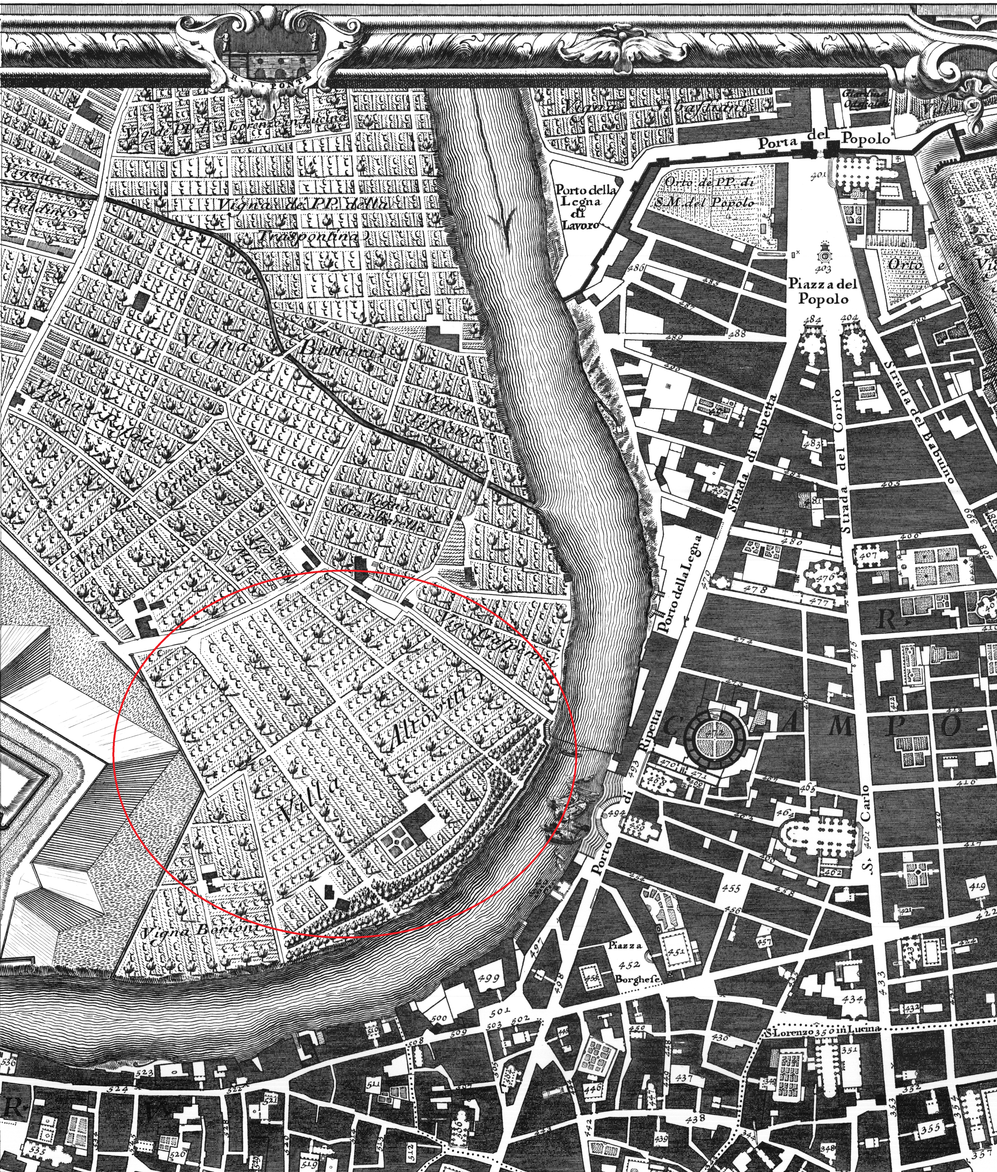 Villa Altoviti (sheet 2 of Mapa di Nolli) - 1748